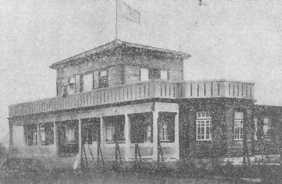 Clubhouse in Shibaura stadium（ballpark of Japan,1921-1923）